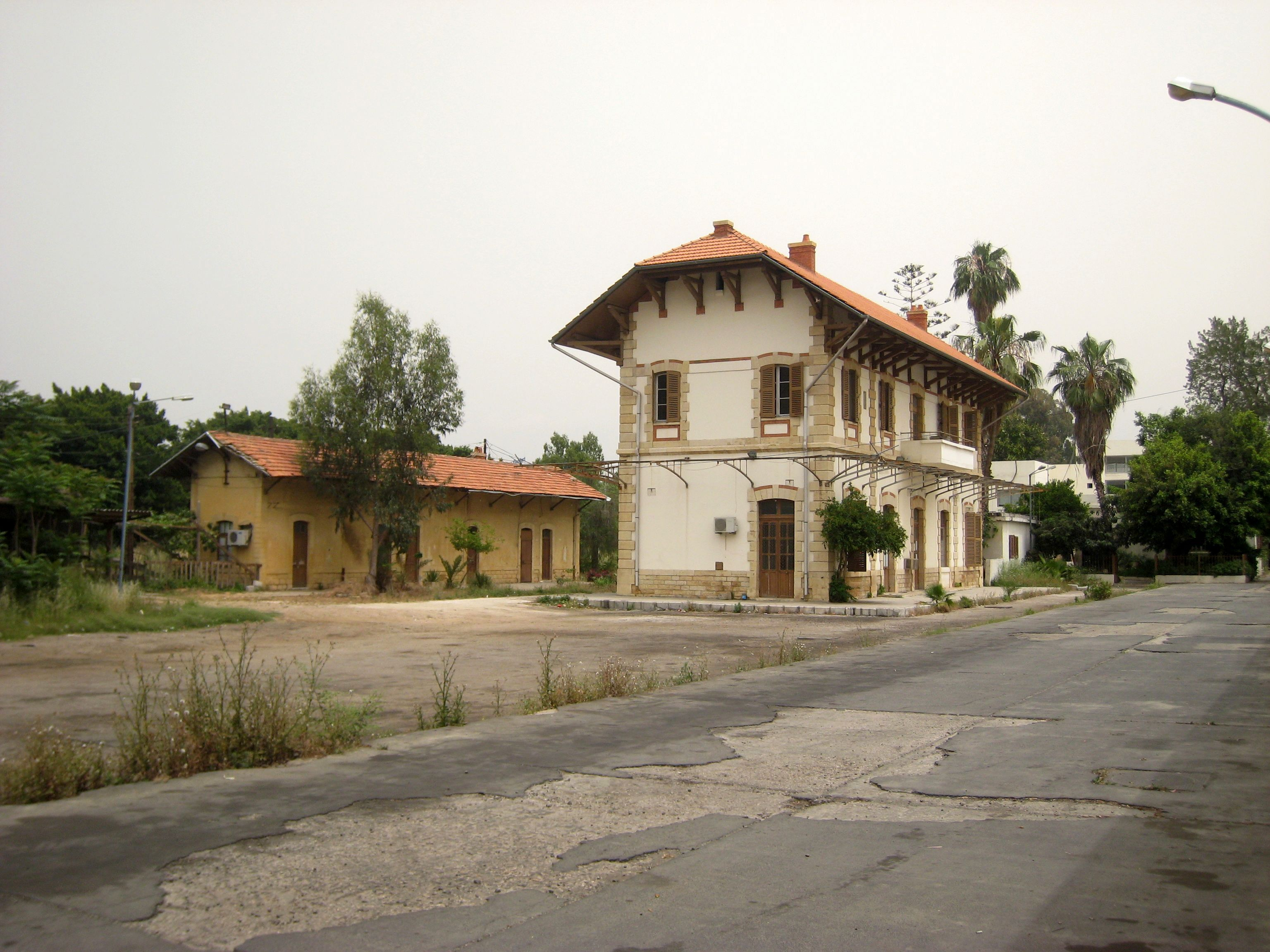 Beirut main railway station